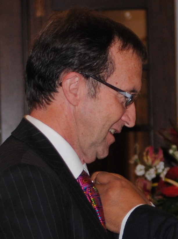 Lindsay Brown, receiving the insignia of MNZM, for services to the community, at Government House, Wellington, on 15 April 2011.